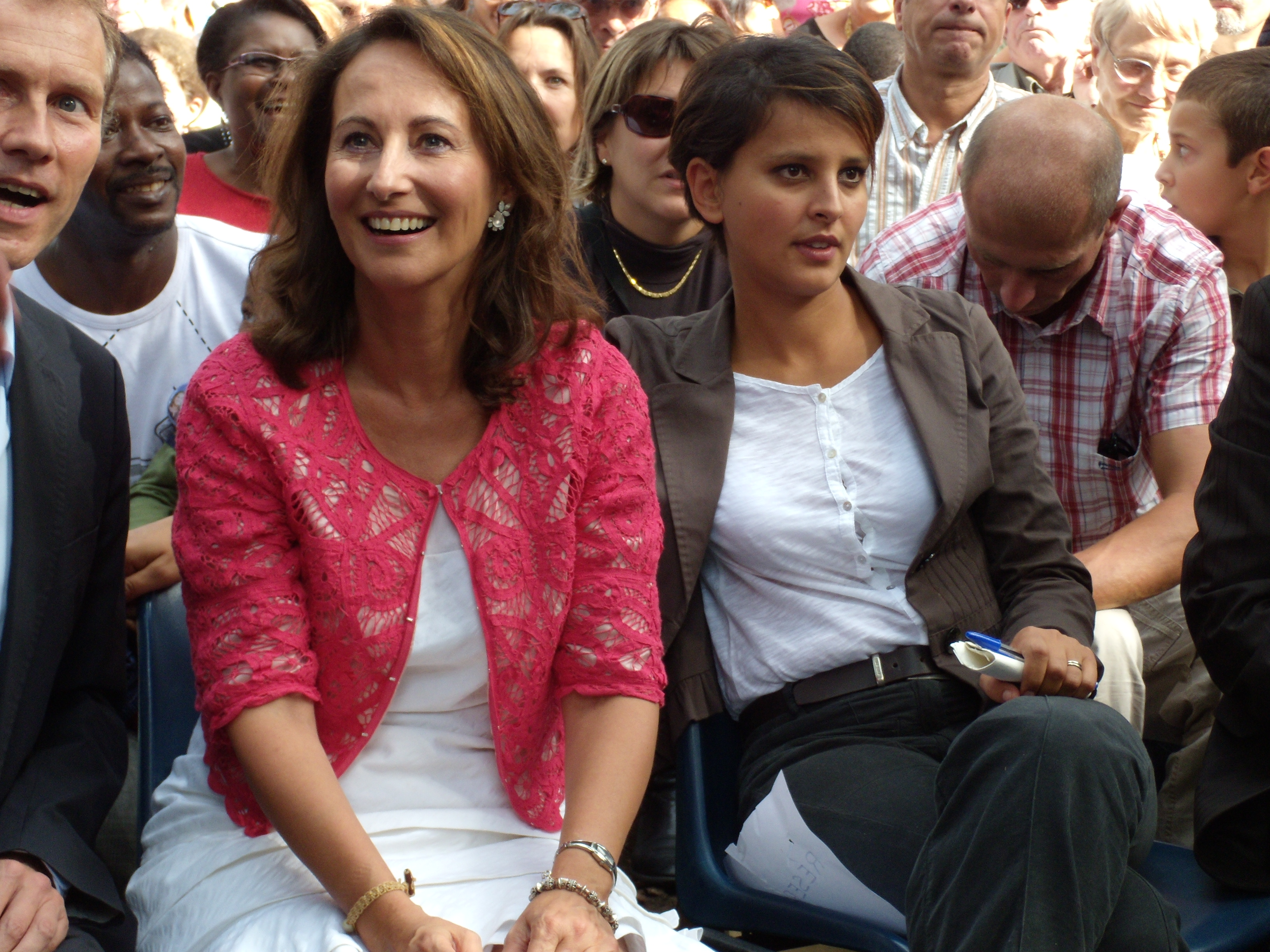 Guillaume Garot, Ségolène Royal and Najat Belkacem during the Fête de la fraternité at Montpellier in september 2009.